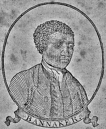 Woodcut of Benjamin Bannecker